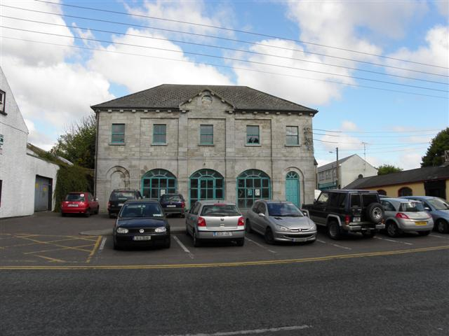 Market House, Ballyconnell, near to Ballyconnell and Drumane, Cavan, Ireland. Brian McLernon describes it very well in his marvellous website, see - Link